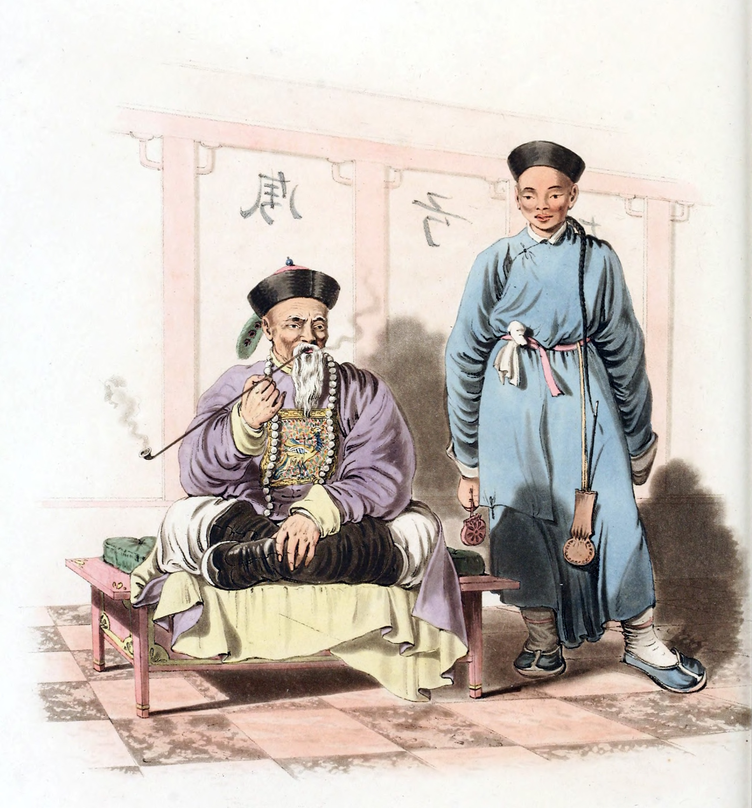 Drawing by William Alexander, draughtsman of the Macartney Embassy to China in 1793. A Chinese civil magistrate sitting on a cushion, smoking a pipe, and waiting for the arrival of a visitor, attended by a domestic. The mandarin's rank and position are denoted by the bird embroidered on the badge on his breast, and by the red ball and peacock's feather attached to his cap, as well, as the beads of pearl and coral appending from his neck. The servant holds in his hand a purse with tobacco for his master; his girdle encloses a handkerchief, and from which also hangs his tobacco pouch and pipe. On the wall, Chinese characters are painted, signifying moral precepts. Image taken from The Costume of China, illustrated in forty-eight coloured engravings, published in London in 1805.